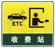 Traffic sign in the People's Republic of China.